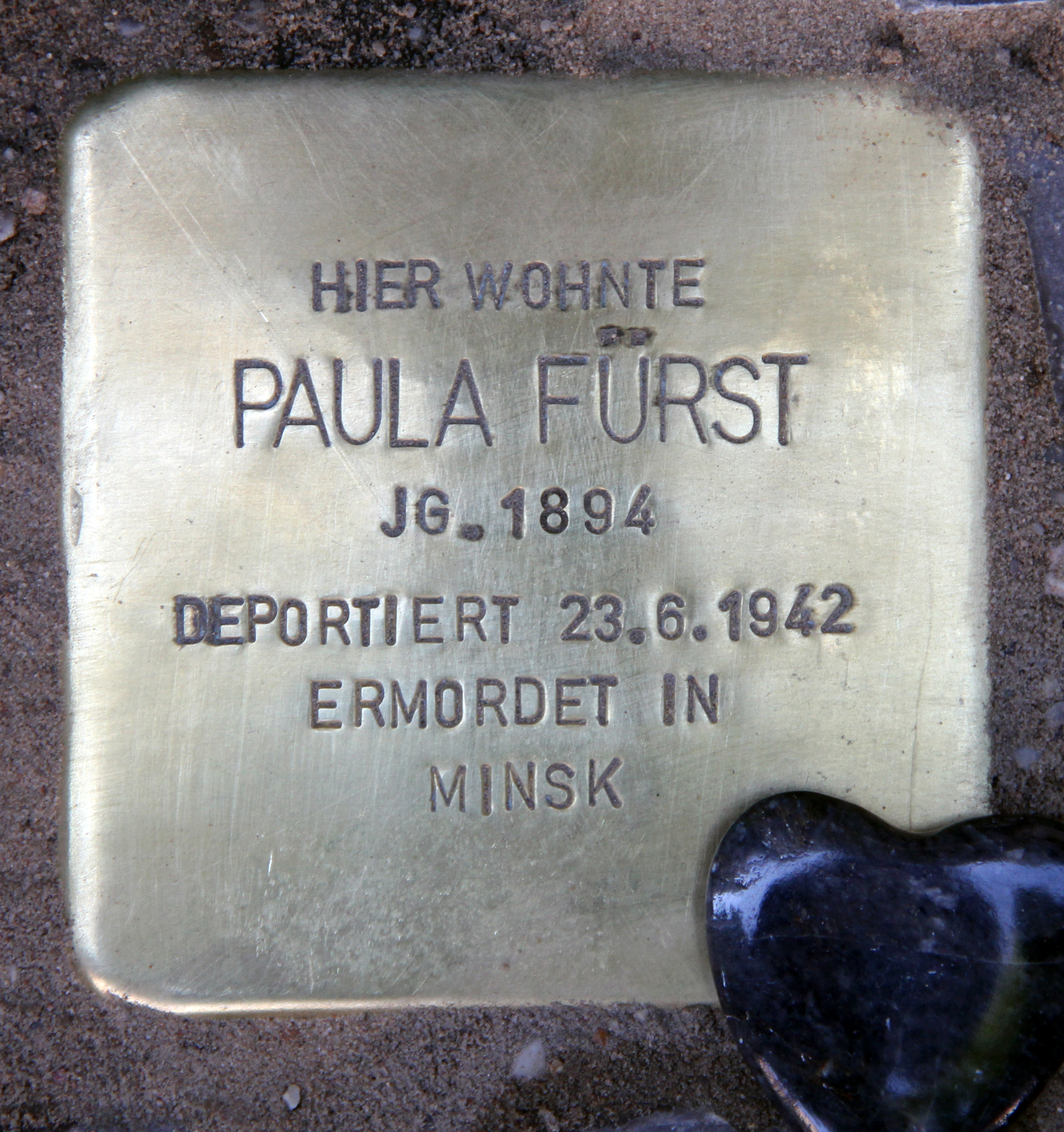 "Stolperstein" (stumbling block), Paula Fürst, Kaiserdamm 101, Berlin-Charlottenburg, Germany